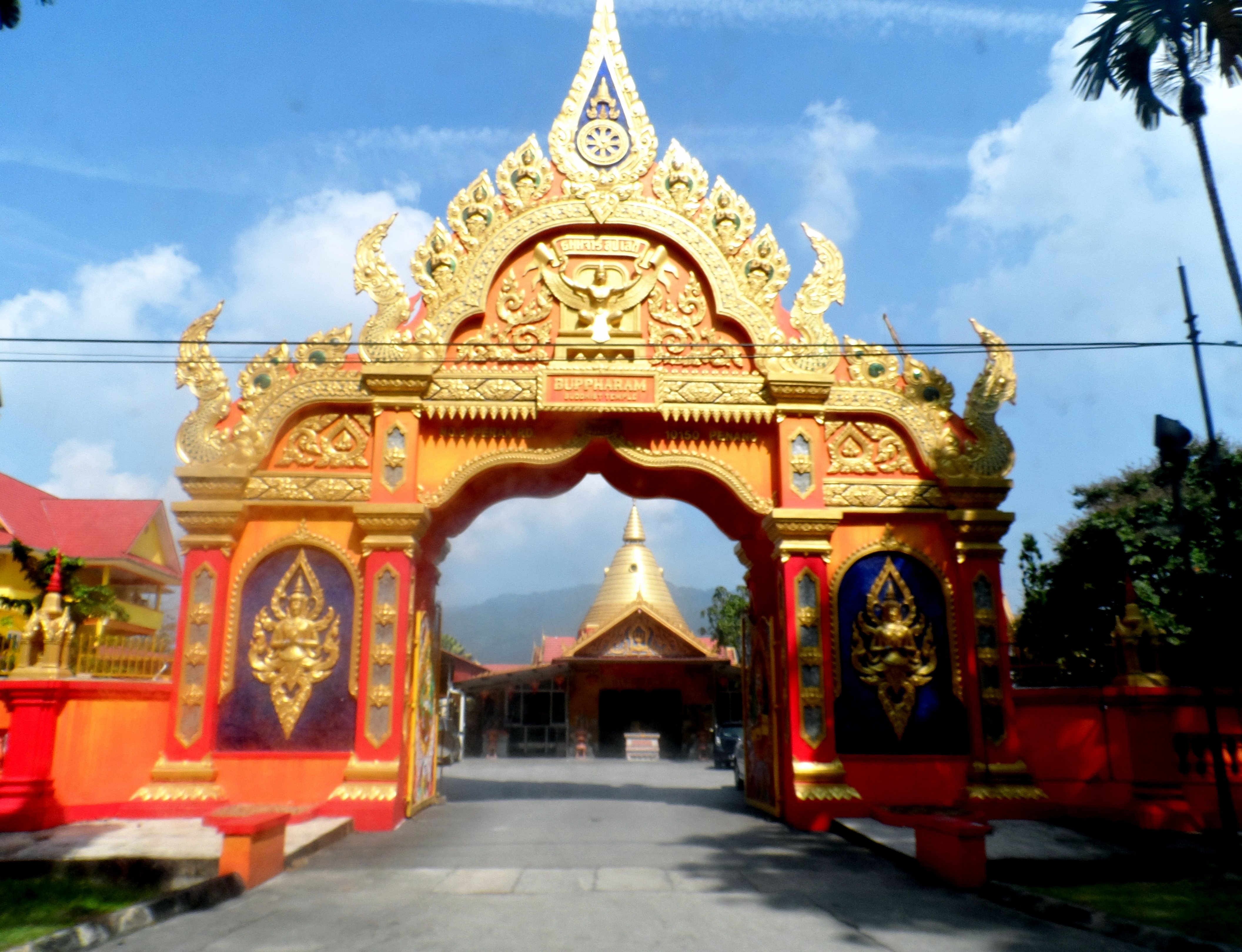 Main arch of Wat Buppharam at Jalan Perak, George Town, Penang, Malaysia